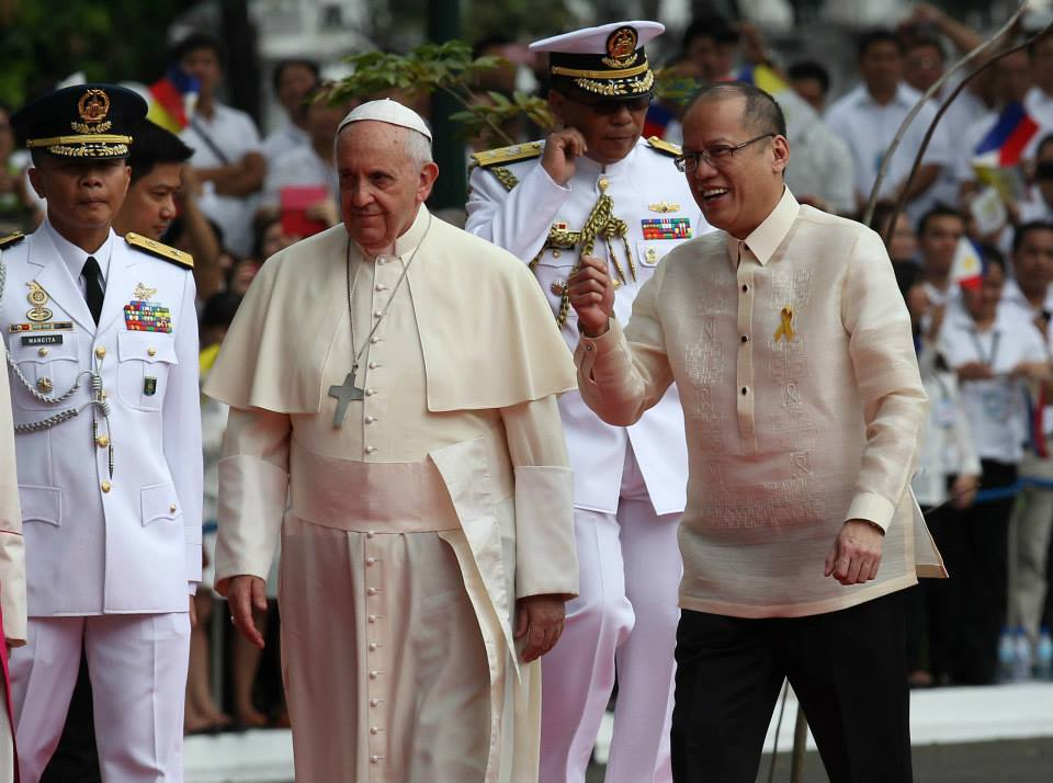 President Benigno S. Aquino III guides His Holiness Pope Francis towards the Palace Main Lobby of the Malacañan Palace during the welcome ceremony for the State Visit and Apostolic Journey to the Republic of the Philippines on Friday (January 16, 2015)